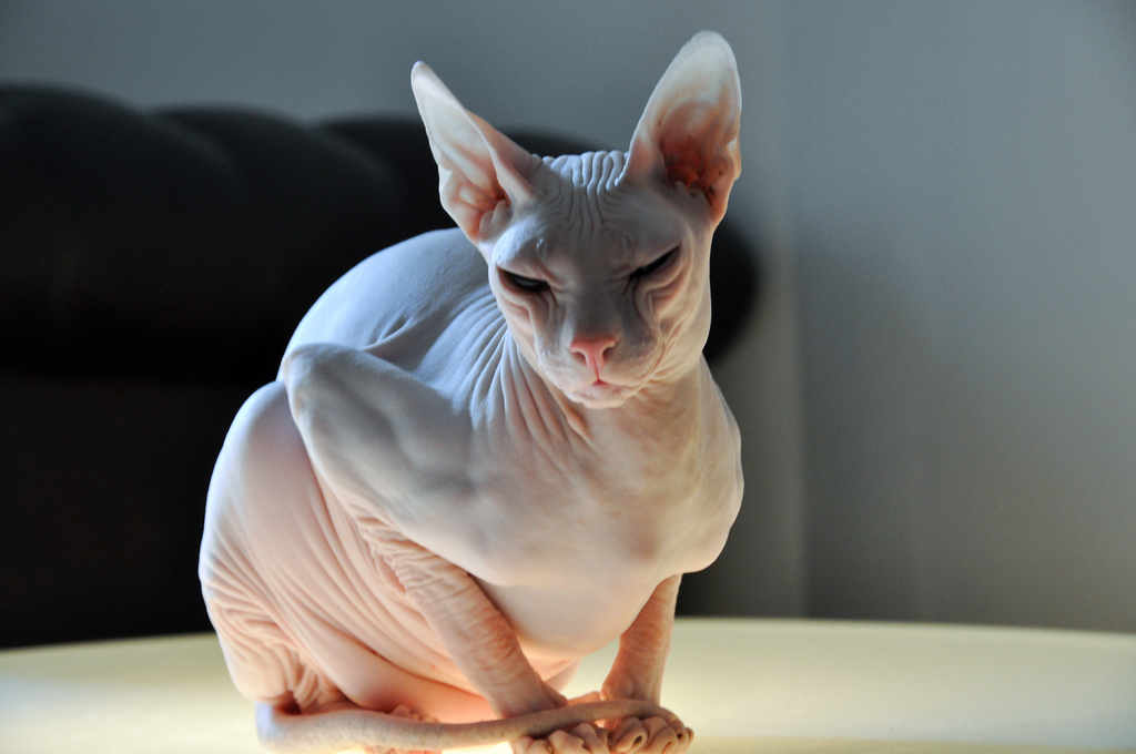 Male donskoy/don sphynx